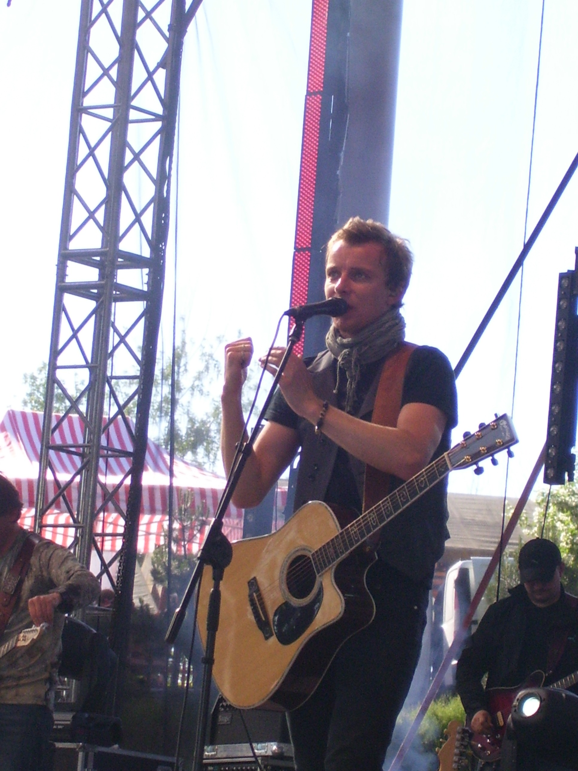 Feel-Kupicha Band